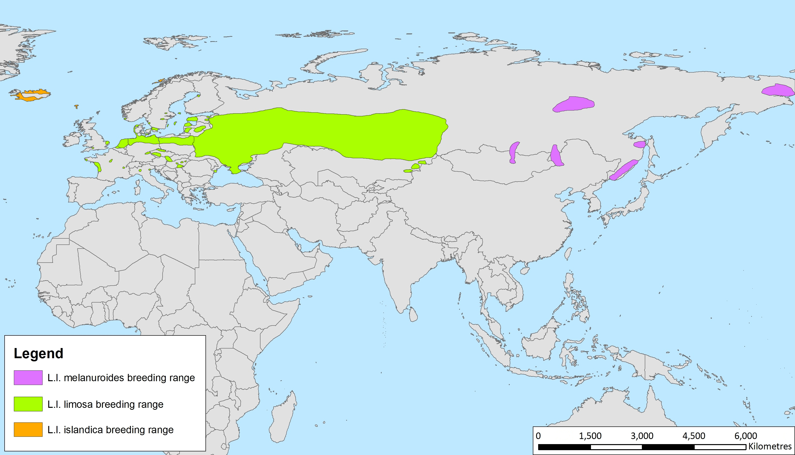 Breeding distributions of the subspecies of Black-tailed Godwit Limosa limosa